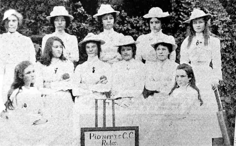 Photograph of the 1902 Pioneers Cricket Club: (back row) the Misses Mona Levey, Ruby Heywood,Myrtle King, Helen Andre and Muriel Beauchamp, (front row) Iris Evatt, Maude Davies, Edith Sutton,Joyce Davies, Kathie Ryan and a mysterious "Myself". Picture: Photographer unknown. Evening Post, March, 1963.